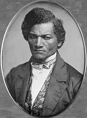 Daguerreotype of Frederick Douglass